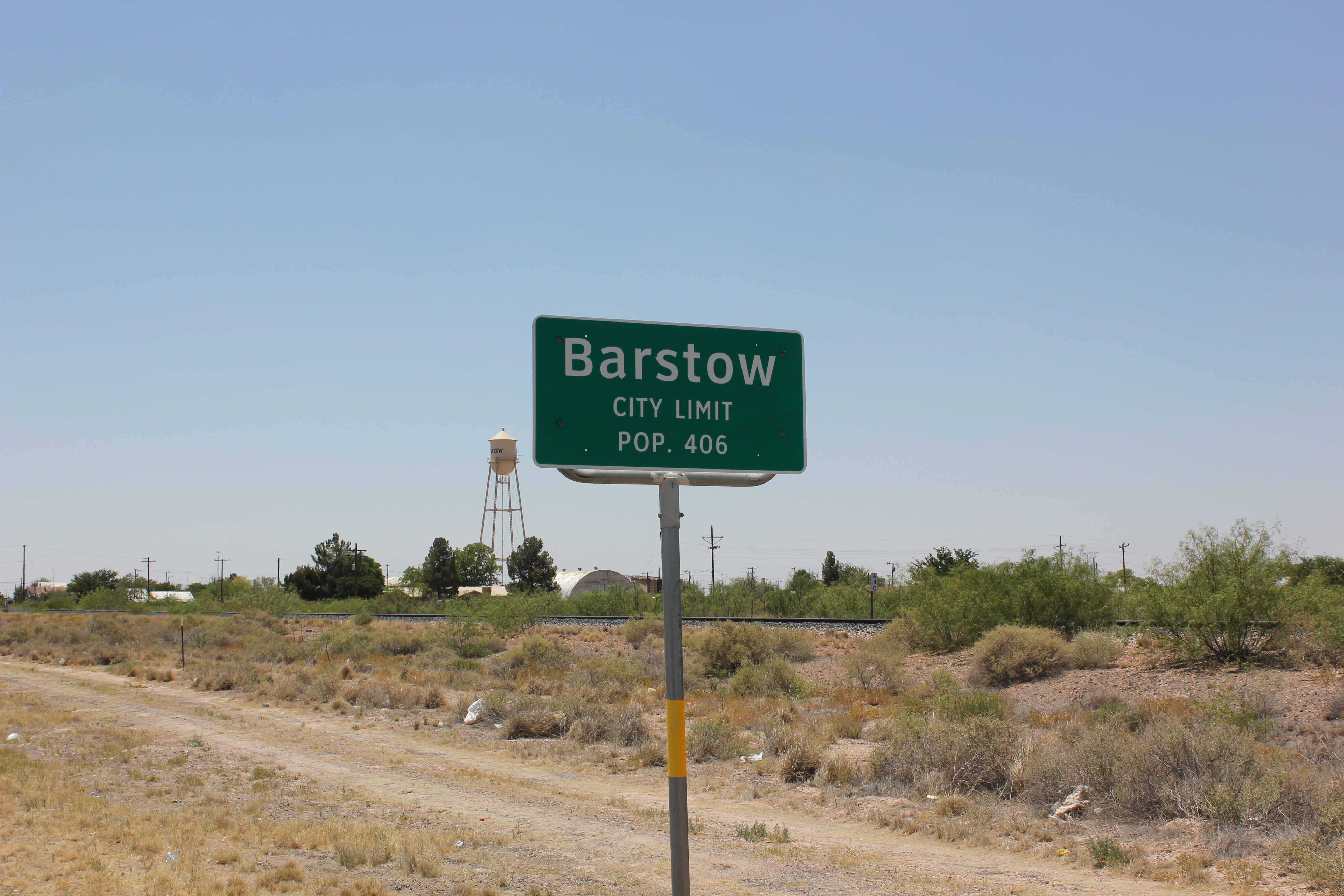 Barstow Texas